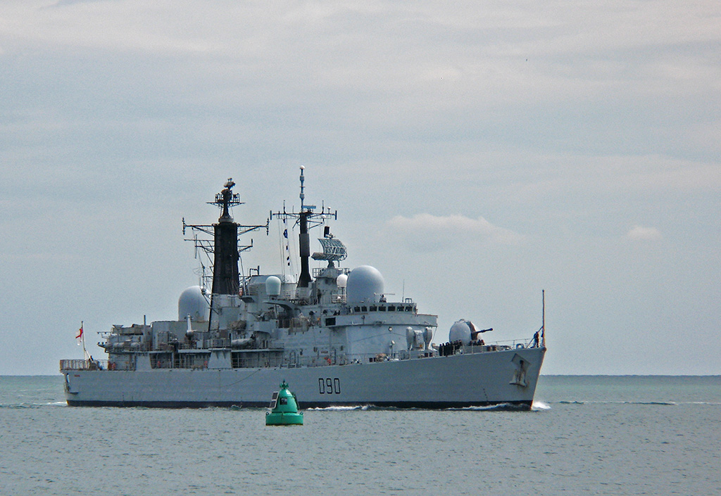 HMS Southampton (D90) photographed entering Portsmouth harbour on the 12 of June 2008 by Brian.Burnell.